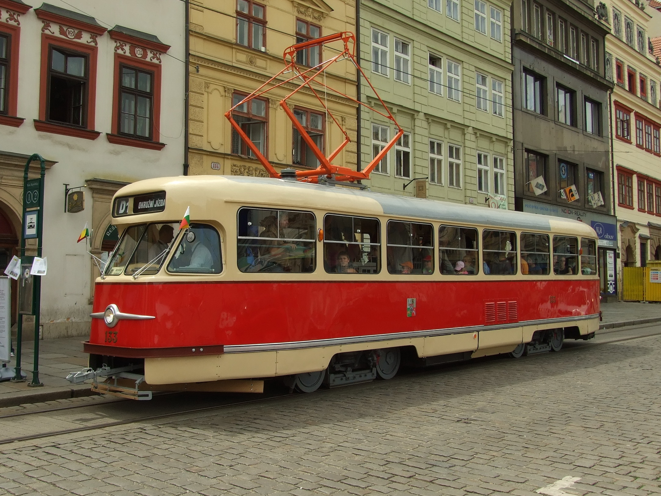 110th anniversary of public transport in Plzeň, Plzeň Region, CZ